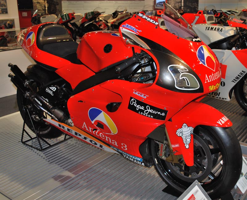 Yamaha YZR500 (2002), Final model